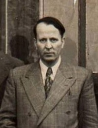 Cropped image of Nihal Atsız, Turkish writer. (1930s)